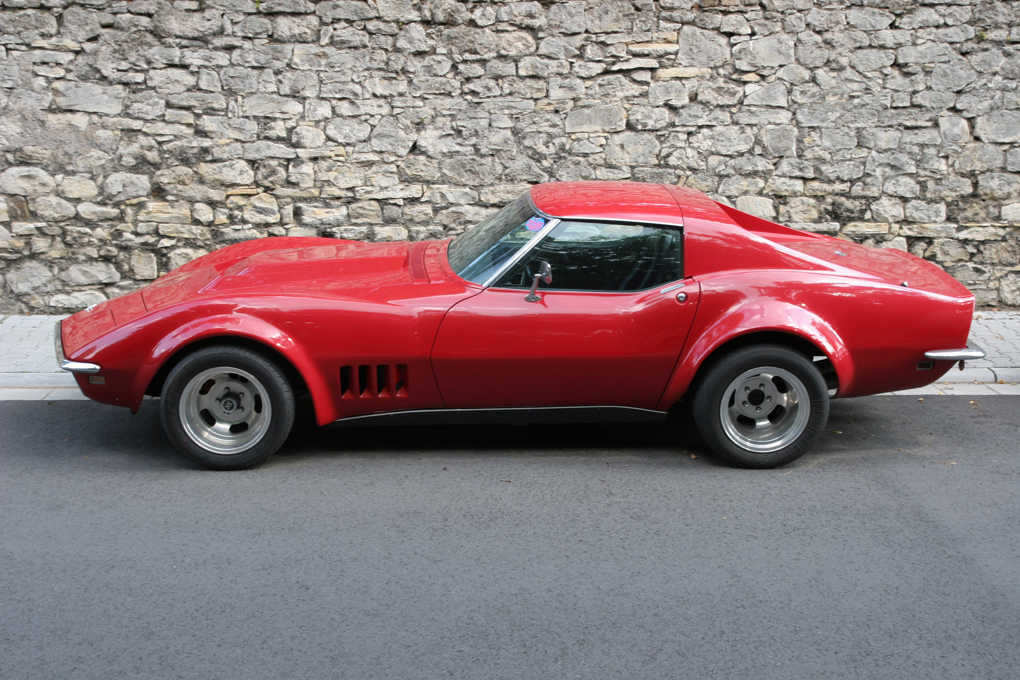 Chevrolet Corvette C3, located in Gernsheim (Germany)